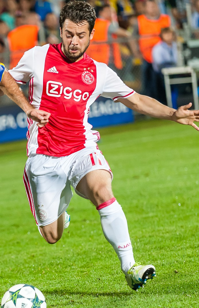 Amin Younes